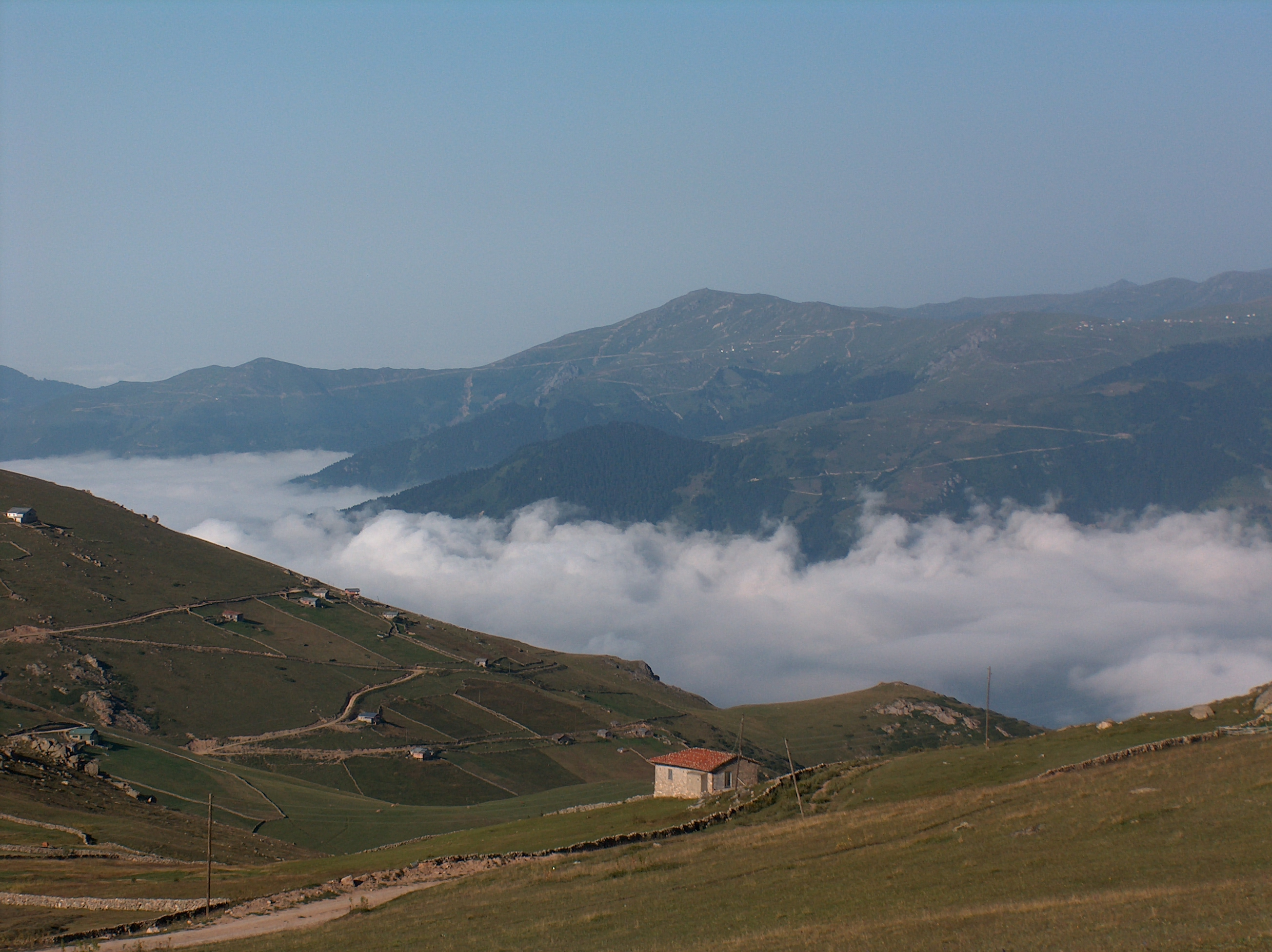 The Sea of Clouds